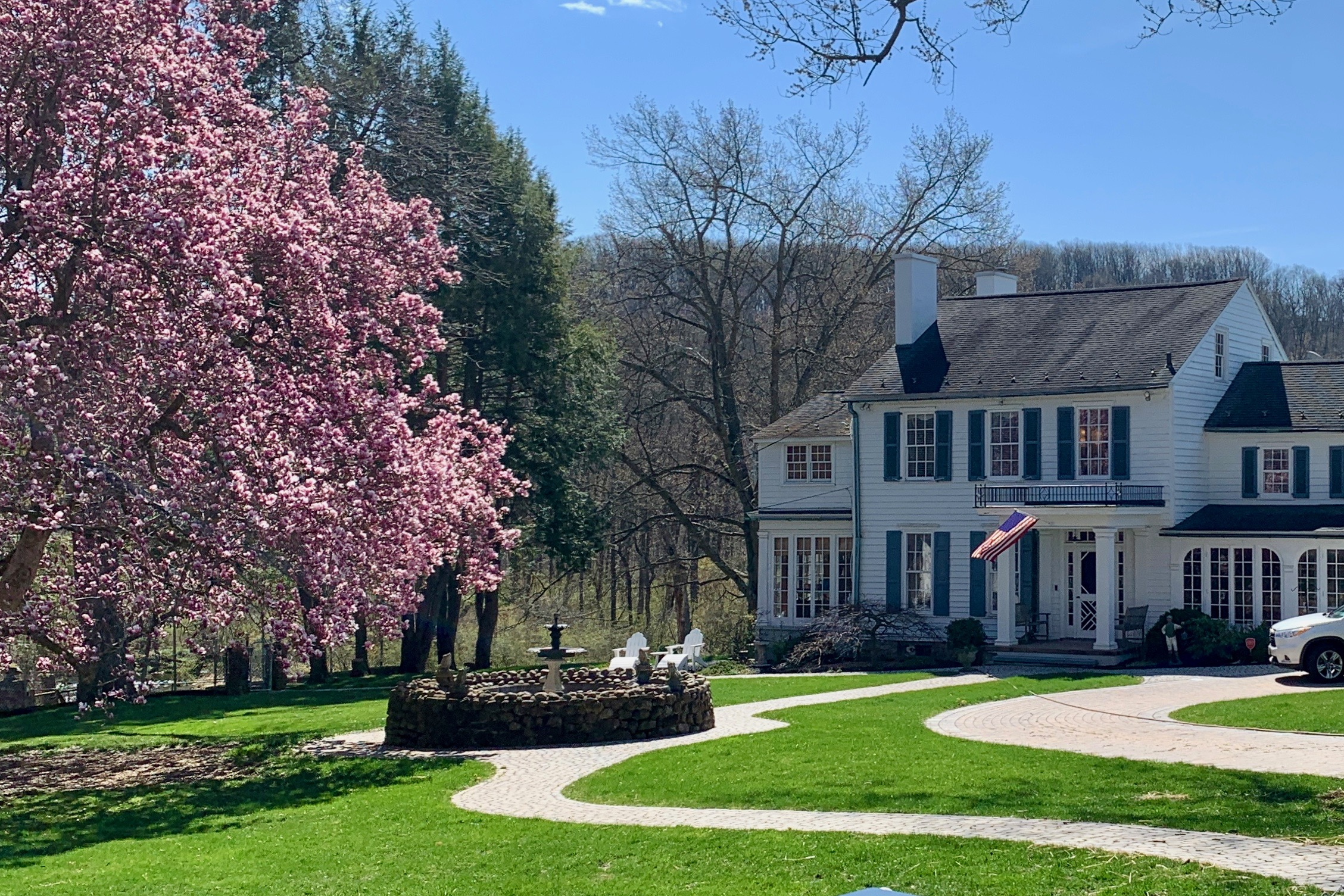 Round cobblestone fountain basin and flowering Magnolia tree by house in Pleasant Valley, Warren County, New Jersey. Contributing property #3 in the Pleasant Valley Historic District (Warren County, New Jersey).